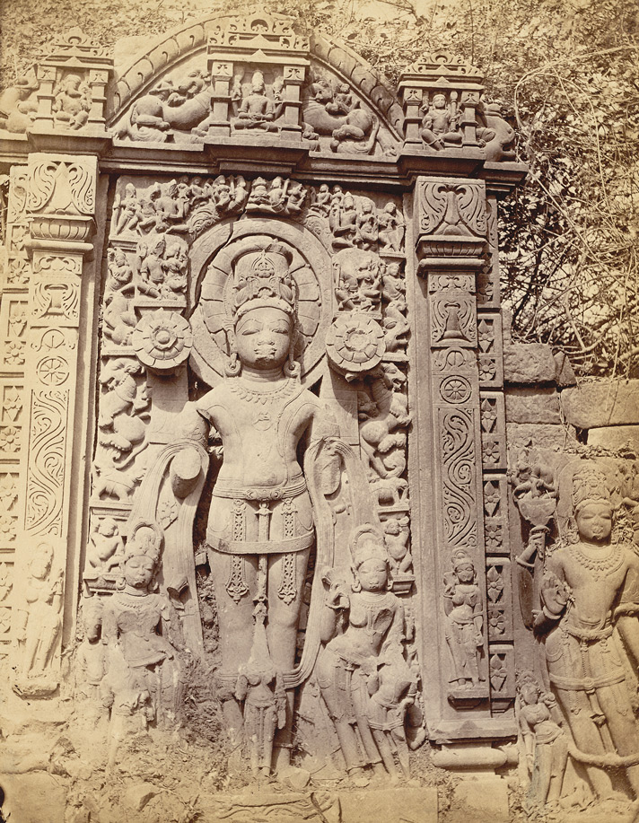 Sculpture of Aditya (Surya), the Sun god, and and the navagraha, or nine planets, belonging to the Gupta period, found in Garhwa, Allahabad, 1870s photograph